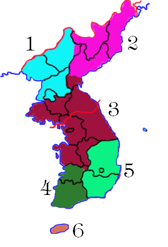 a sketch of Korean dialects